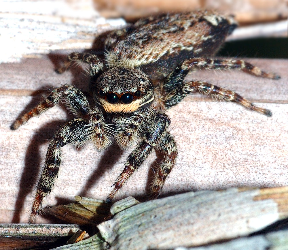 This image shows an about 10 mm large Marpissa muscosa jumping spider.